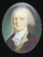 Nicholas Gilman, Exeter, New Hampshire. Gilman was an American Revolutionary patriot and framer as well as signer of the Constitution of the United States. Artist John Ramage (c.1748–1802) was born in Ireland and came to Boston, Mass., before 1775. He served in a Loyalist regiment, but later painted many of the most important patriots of the Revolutionary era, including George and Martha Washington.